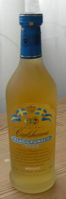 A bottle of Swedish Punsch, summer of 2006. (unopened so far...)